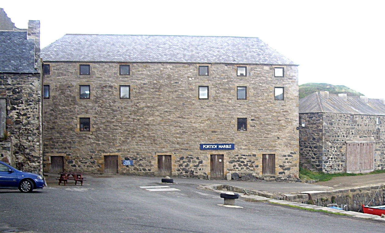 Portsoy Marble